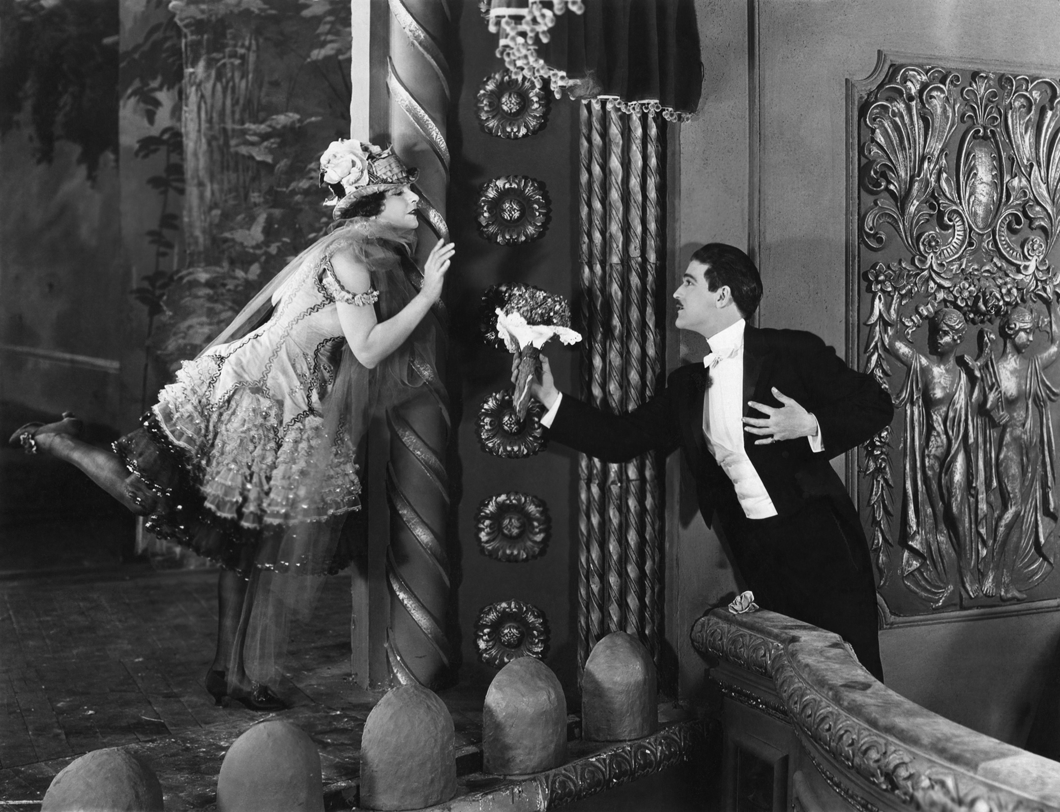 Norma Talmadge and Wallace MacDonald in The Lady (Frank Borzage 1925).